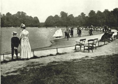 Kensington Gardens. - The Round Pond